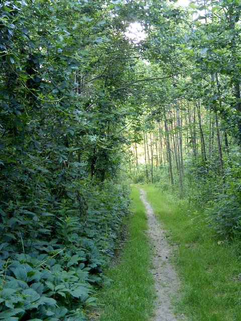 Path in the woods